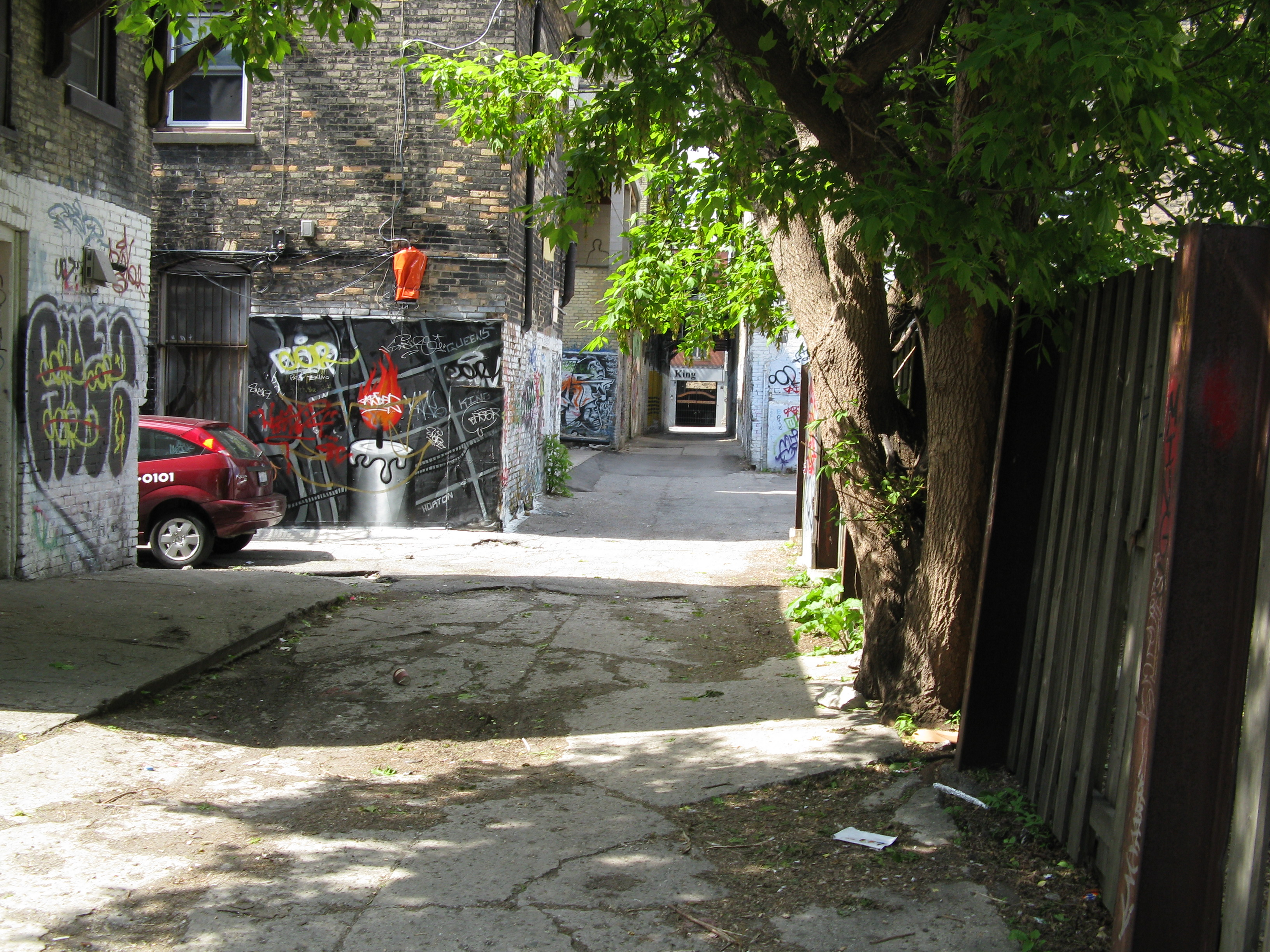 Alleyway in London.